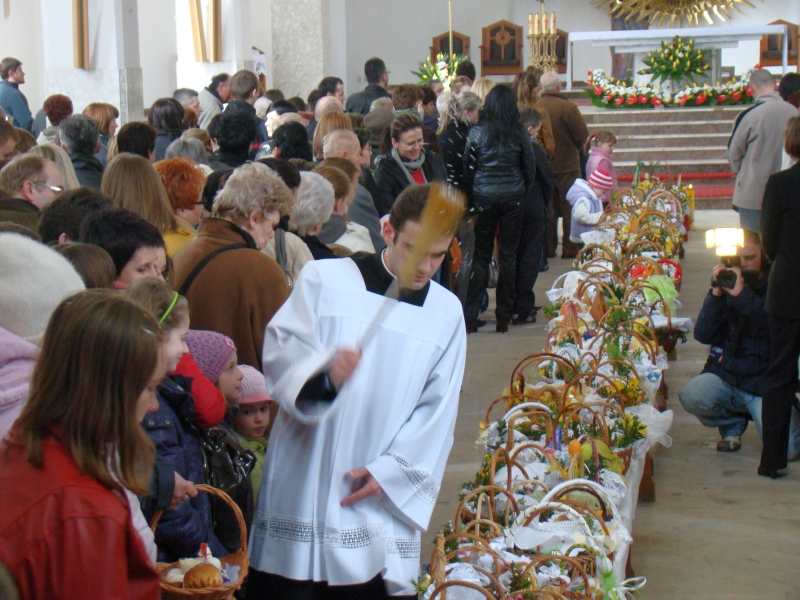 Holy_Saturday;_the_blessing_of_the_Easter_baskets,_Sanok_2010